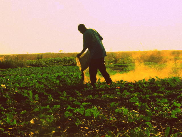 Manuring in the Zambezi flood plains This is an image from Zambia